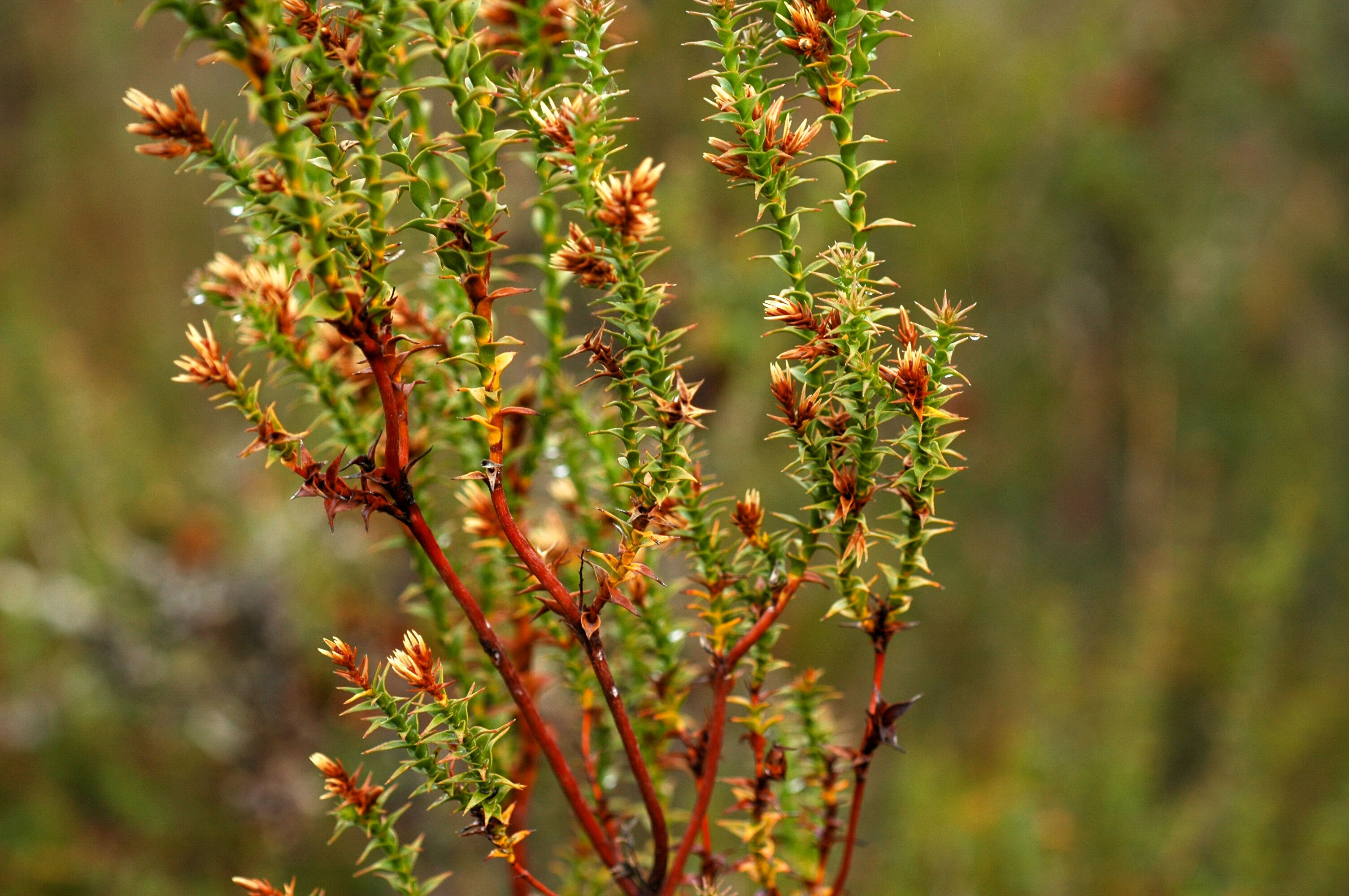 The Smooth stems of Sprengelia incarnata. Photo taken by Will De Angelis at Mt Field, Tasmania